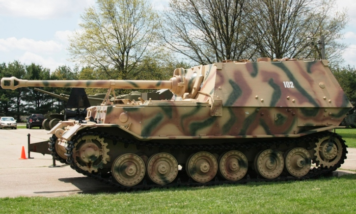 Panzerjäger Tiger Elefant tank destroyer used by German Wehrmacht in WWII. Restored by and on display at US Army Ordnance Museum, Aberdeen, Maryland. Photograph taken by Scott Dunham, April 23, 2009.